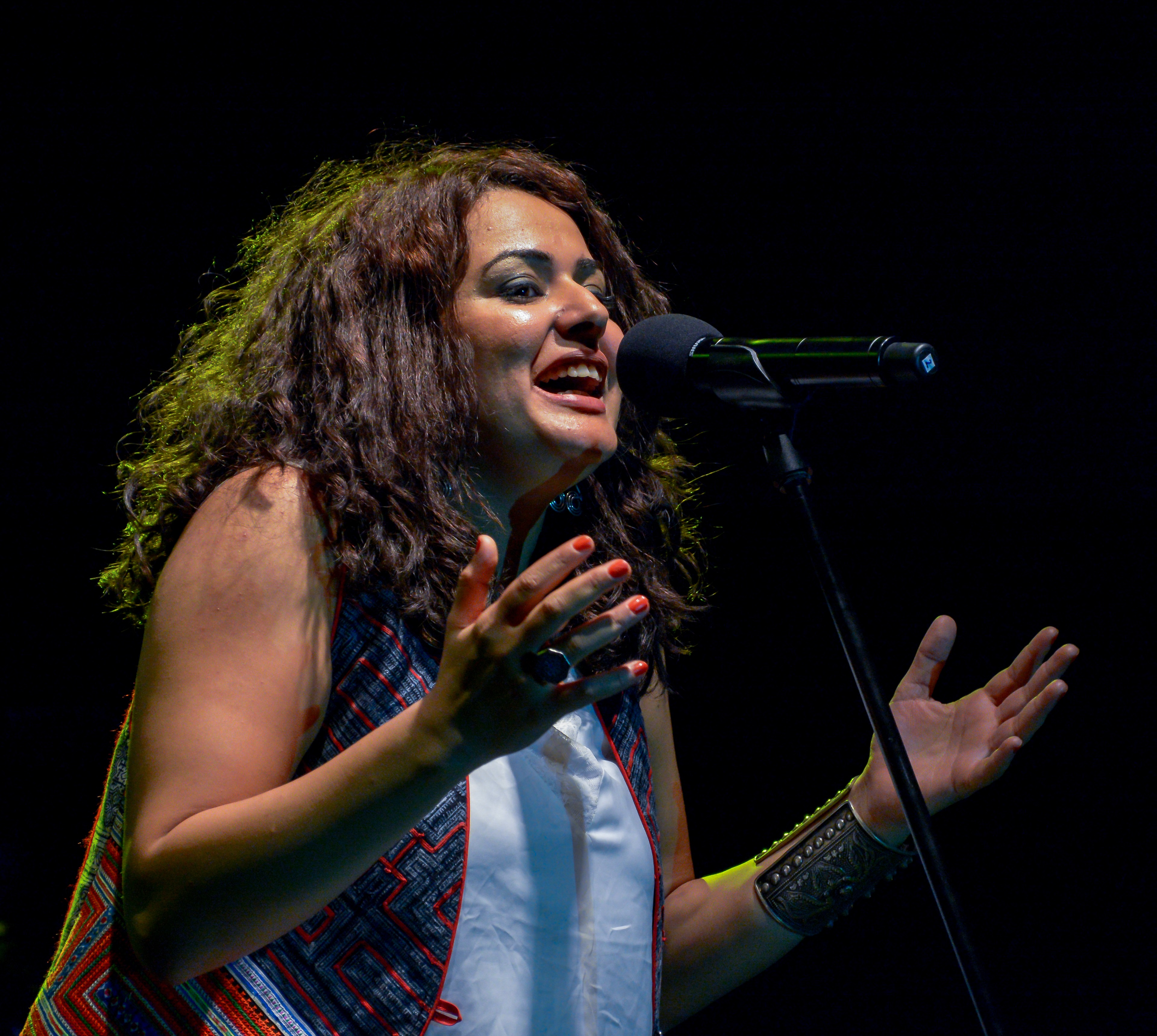 alazhar park 25.6.2015